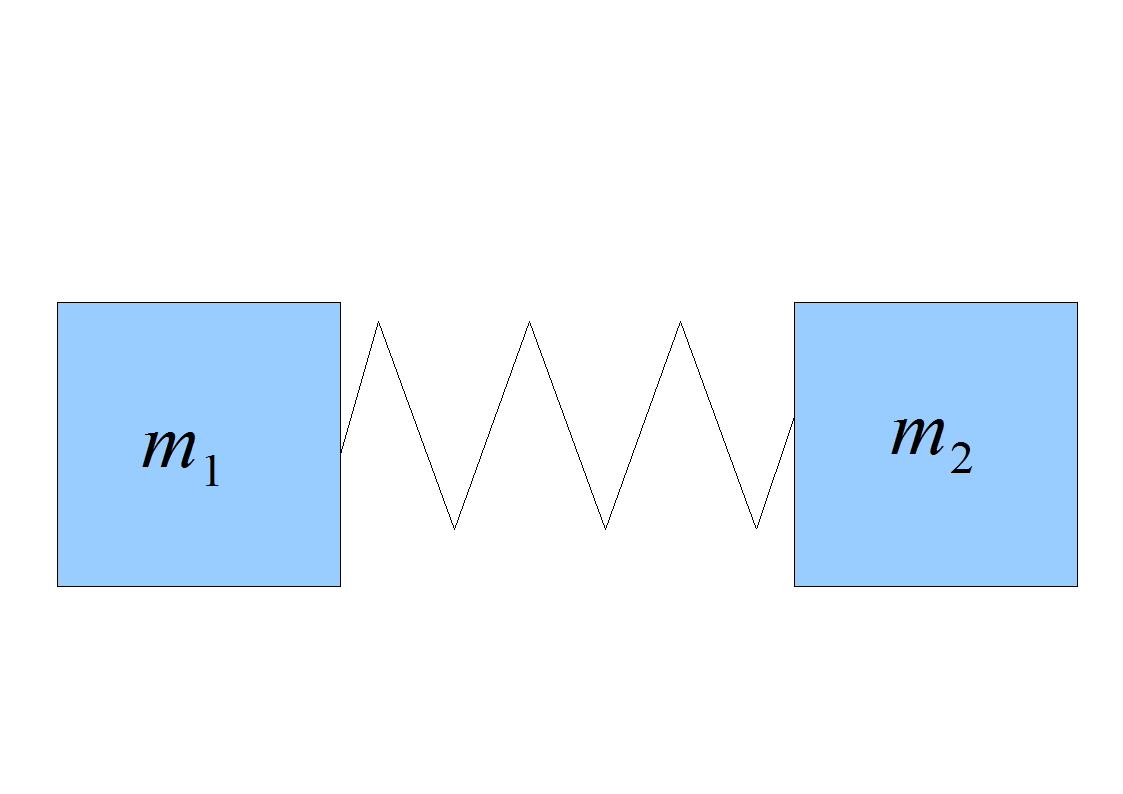 Two blocks connected by a spring